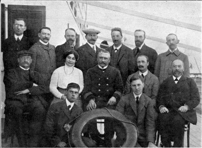 Participants of an expedition to Teneriffa, back row from left to right: Douglas, Carl Neuberg, Mascart, Gotthold Pannwitz, Arnold Durig, Piasse, Hermann von Schrötter; front row from left to right: Johannes Orth, Neuberg, Bachmann, Joseph Barcroft, Nathan Zuntz, front: Pannwitz, Carriere.